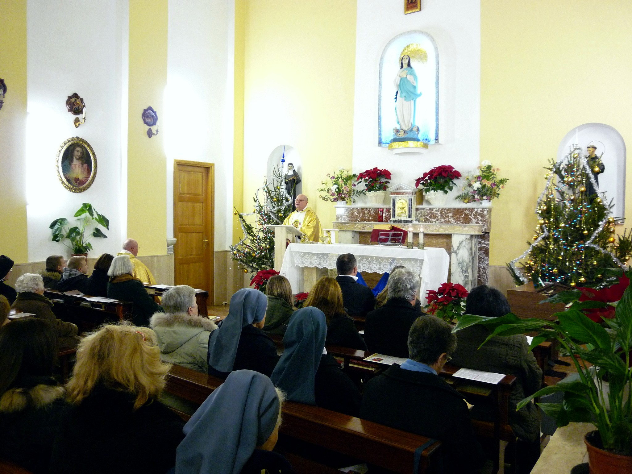 Holy Mass at midnight (Christmas 2008) in Franciscan chapel